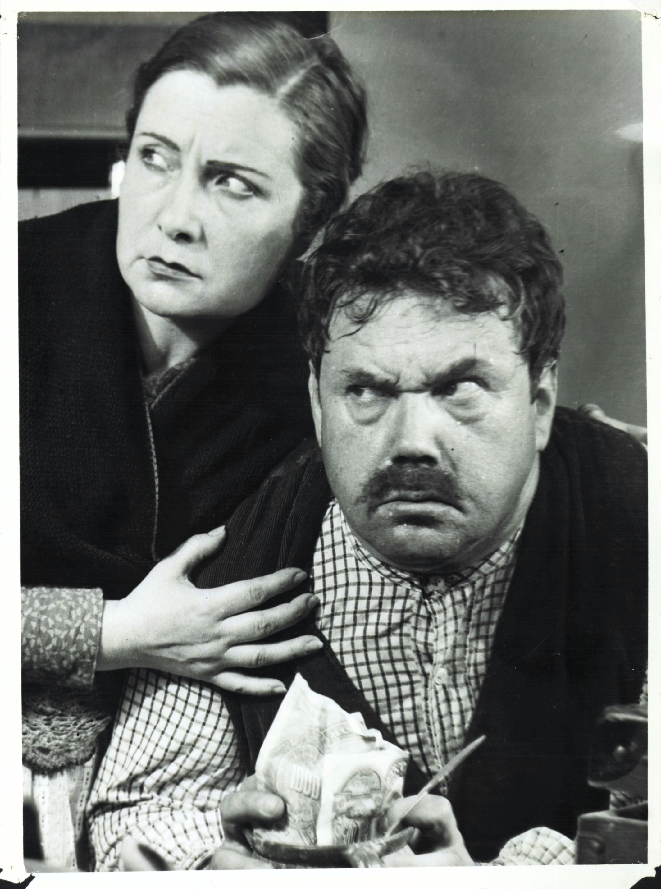 Actress Assumpció Casals and Juan de Landa in "Al margen de la ley" film (1935)